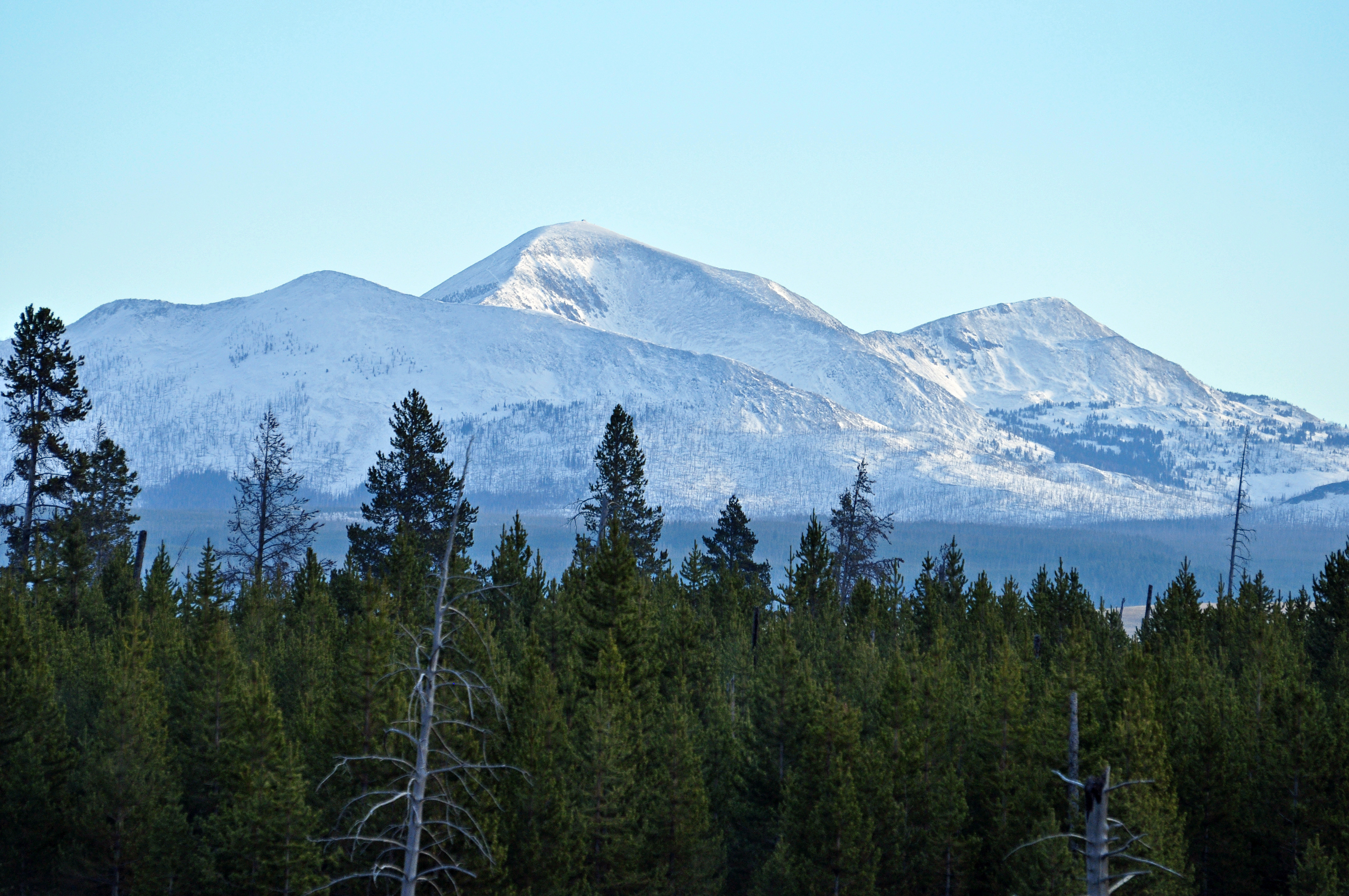 Mount Holmes (center), Triobite Peak (right) and White Peaks (left foreground) from the Madison River in Yellowstone National Park, October 30, 2010. Peaks are located in the southern reaches of the Gallatin Range.